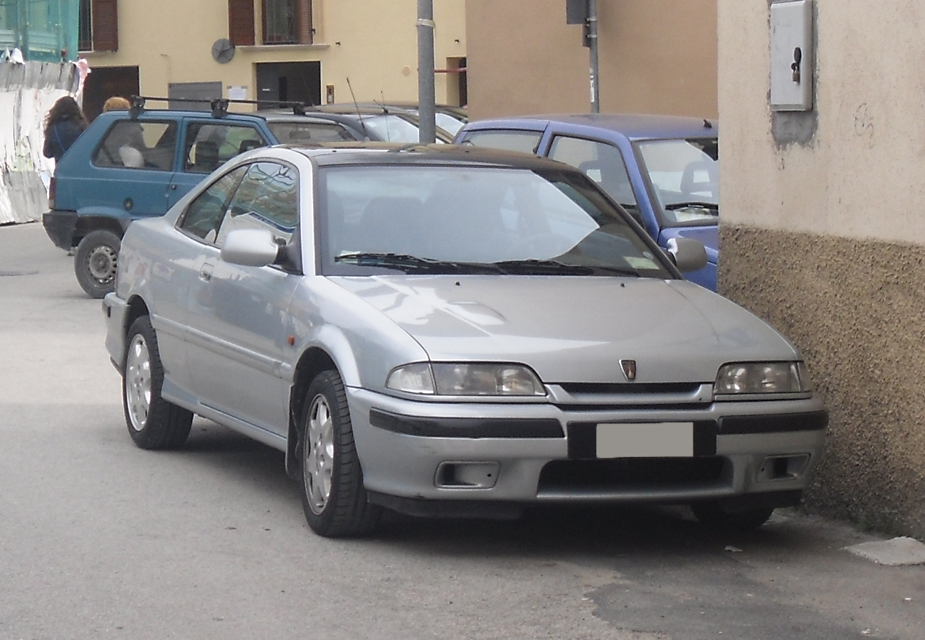 A Rover Coupè (200 series) in Rieti, Italy